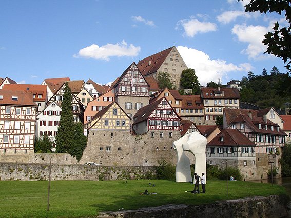 Schwäbisch Hall, northern part of the old town from the Kocher river, with old mill (right), medieval tower house (middle) and the big armory, called "Neubau" (1526) . On the right side sculpture "the Arches" by Henry Moore. Picture taken on 26 August 2005 by User Waterproof947